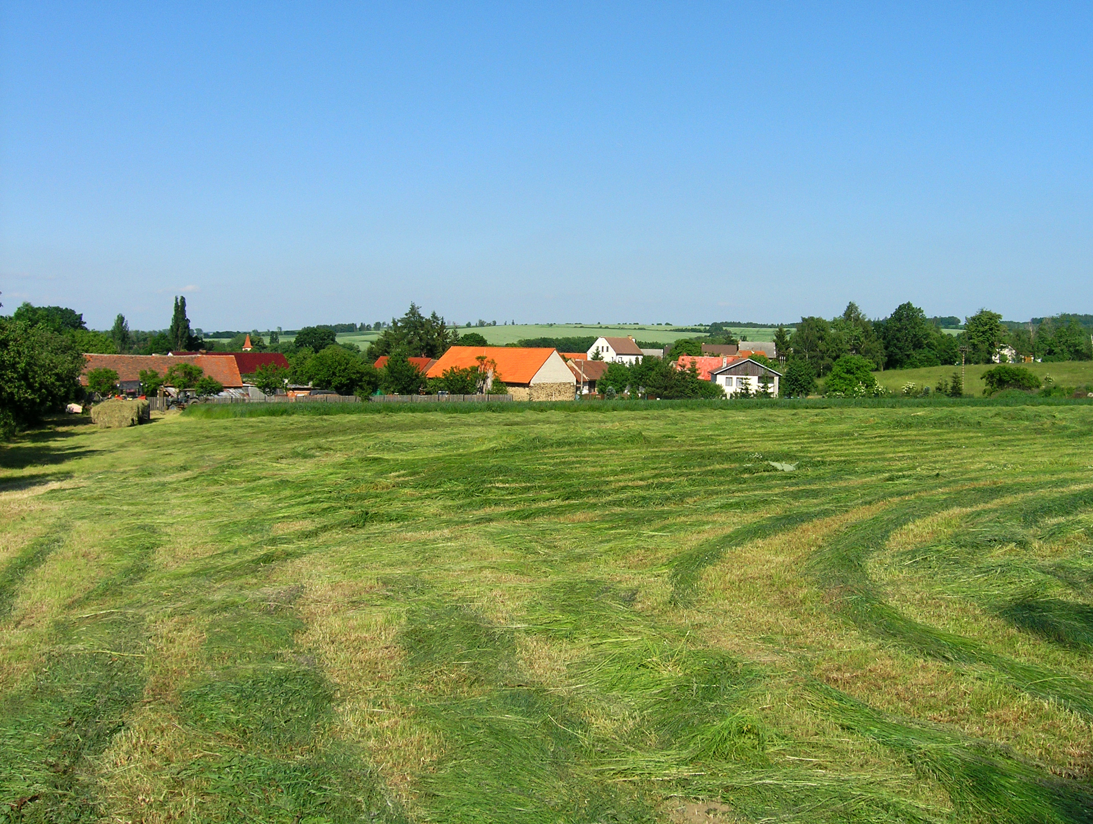 Radějovice from south, Prague-East District, Czech Republic